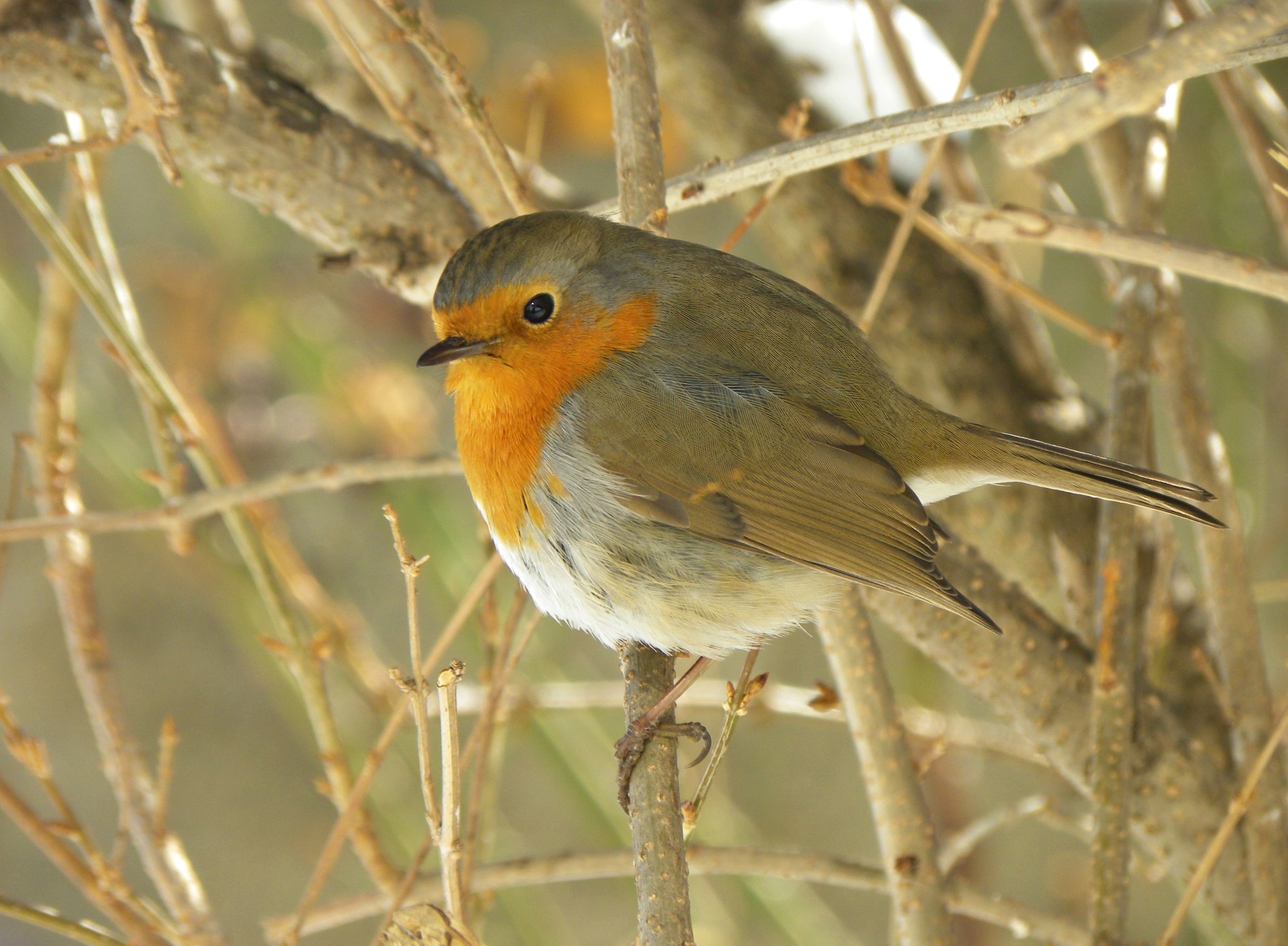 European Robin